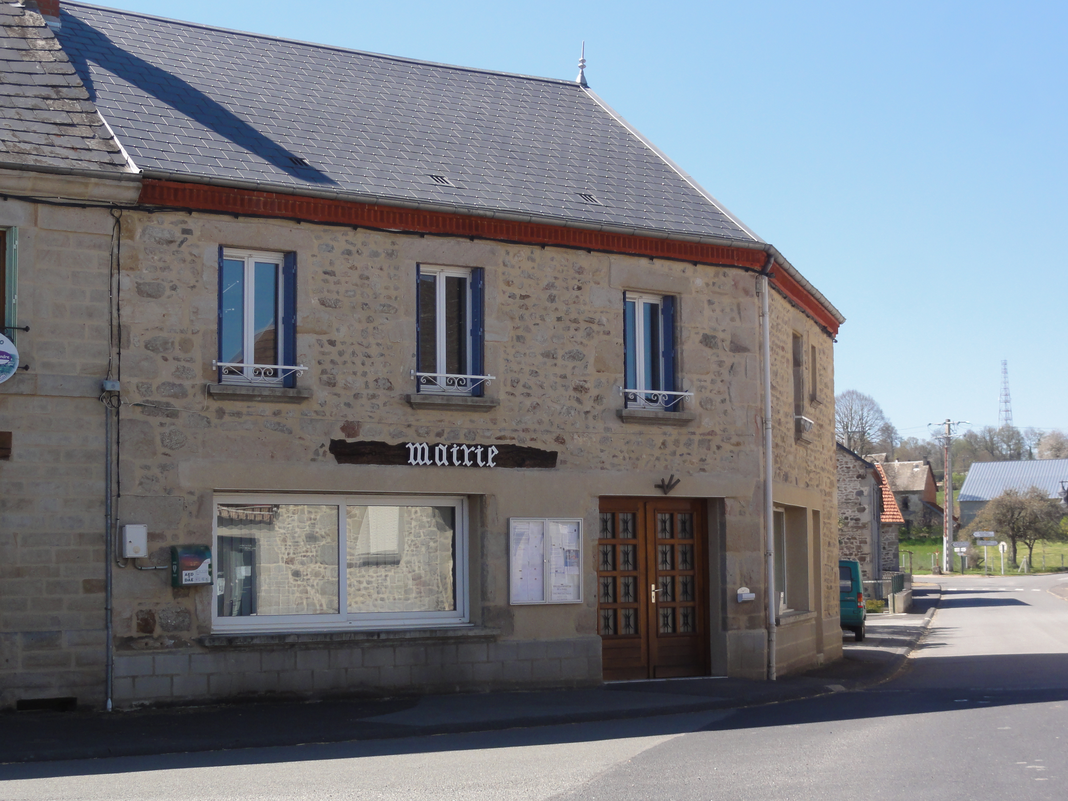 Espinasse (Puy-de-Dôme) mairie